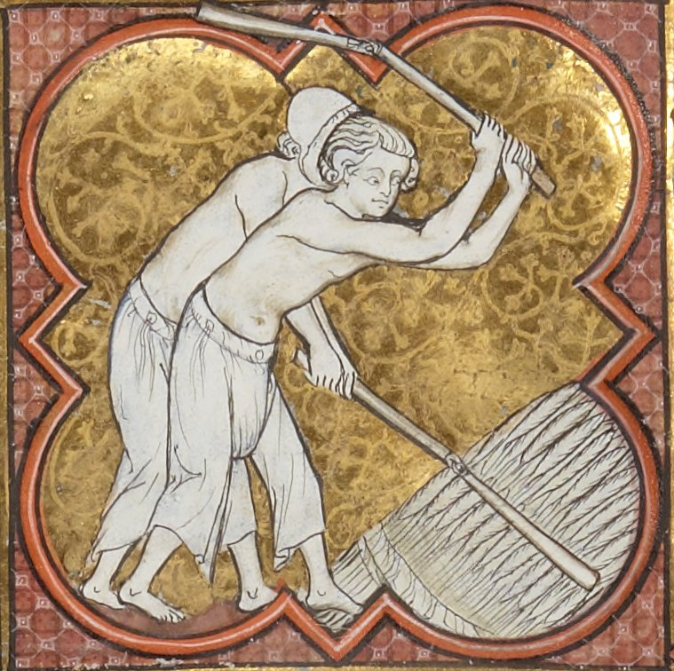 Threshing with threshing flails